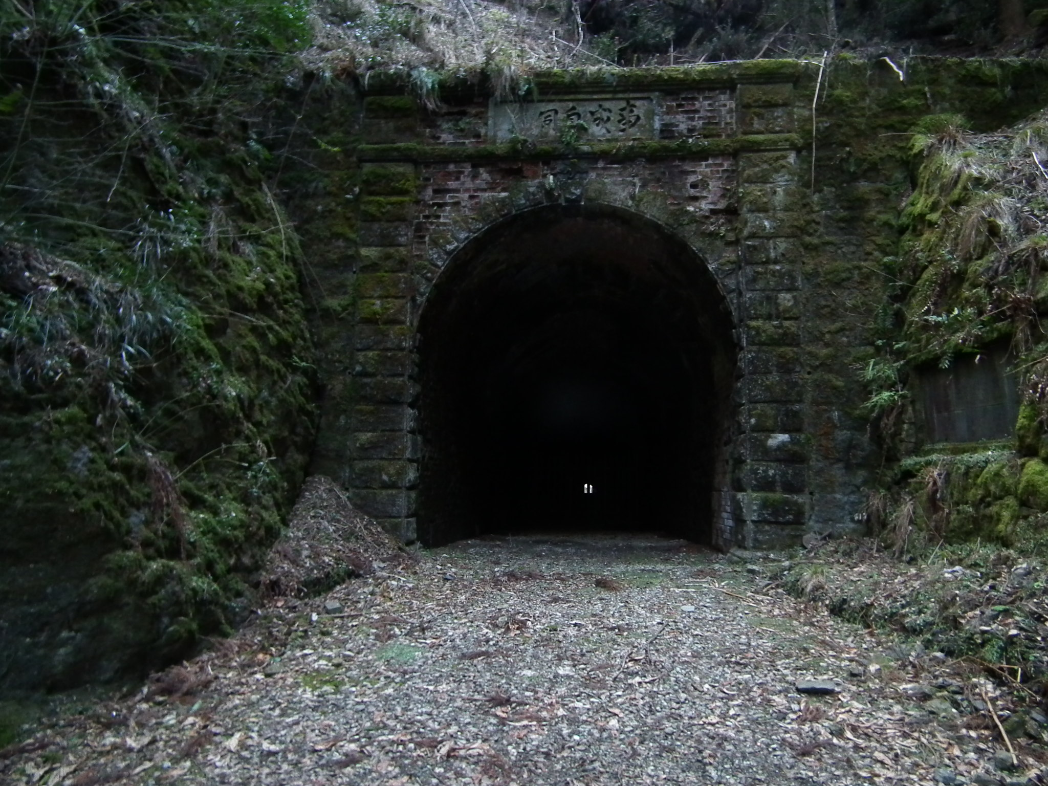 Kanegasaka-Tunnel